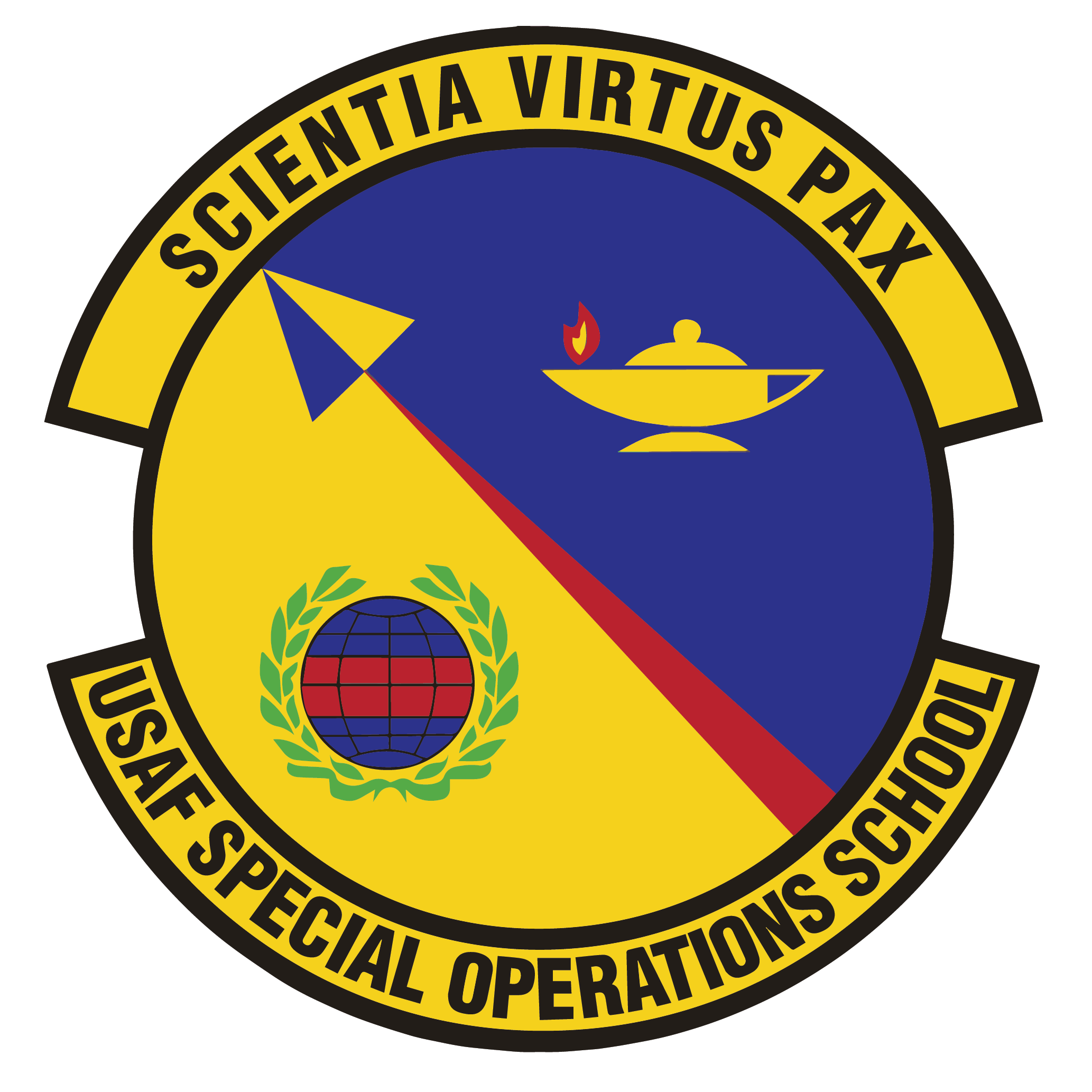 Organization Emblem